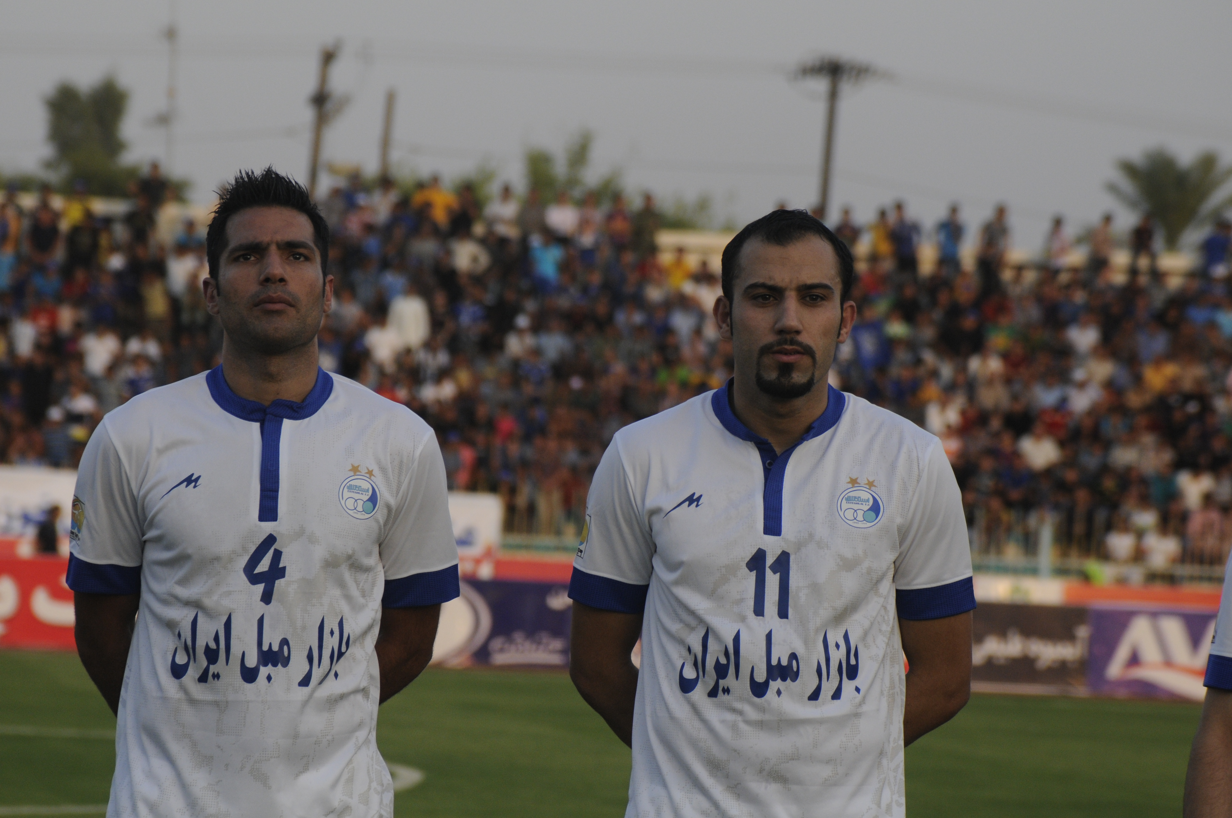 Amir Hossein Sadeghi